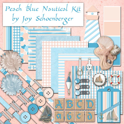 Sample of a Digital Scrapbooking Kit. This kit, and sample image, were created by Joy Schoenberger using Adobe Photoshop Elements 3.0